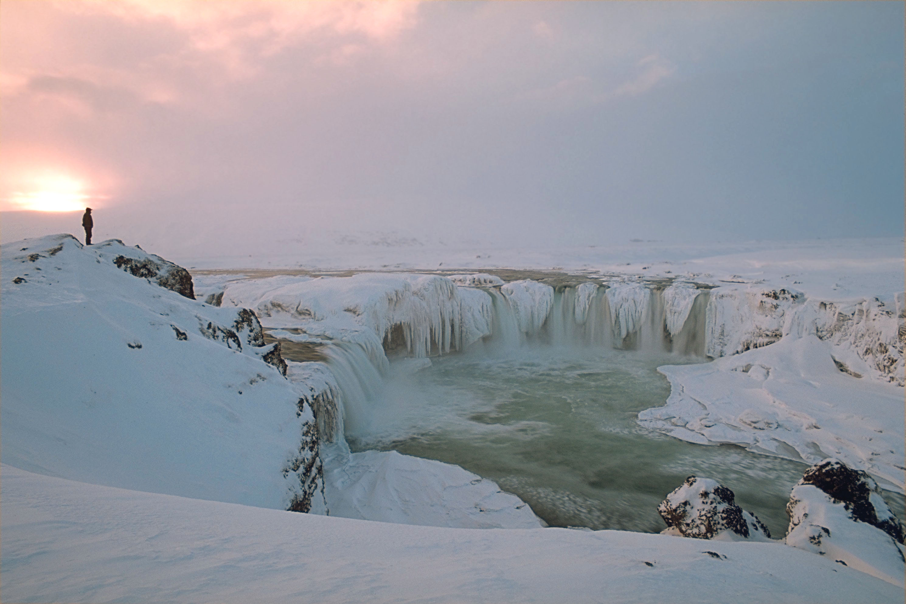 Sunset at Goðafoss in Winter, Iceland.